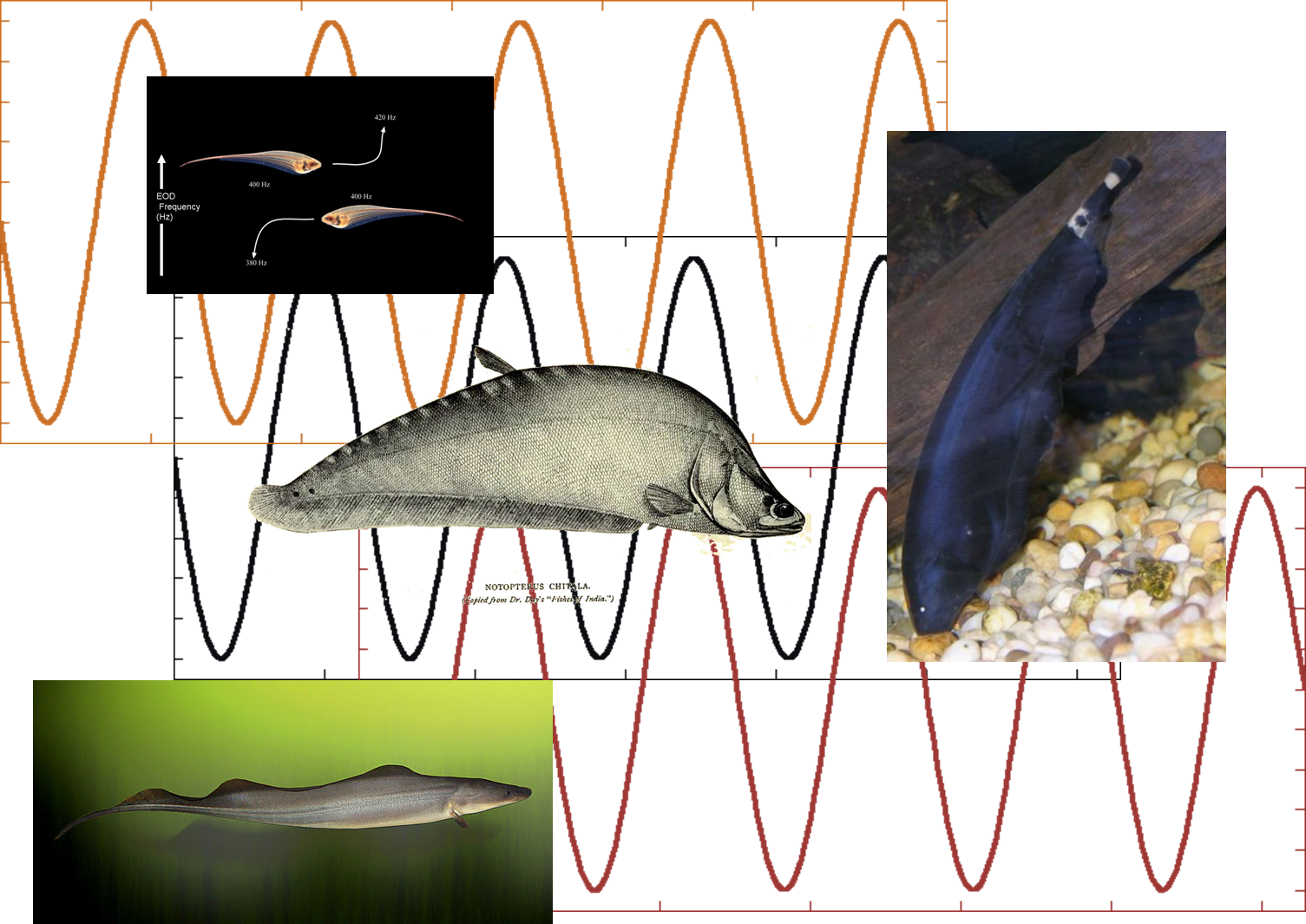 Representation figure of electrocommunication between electric fishes